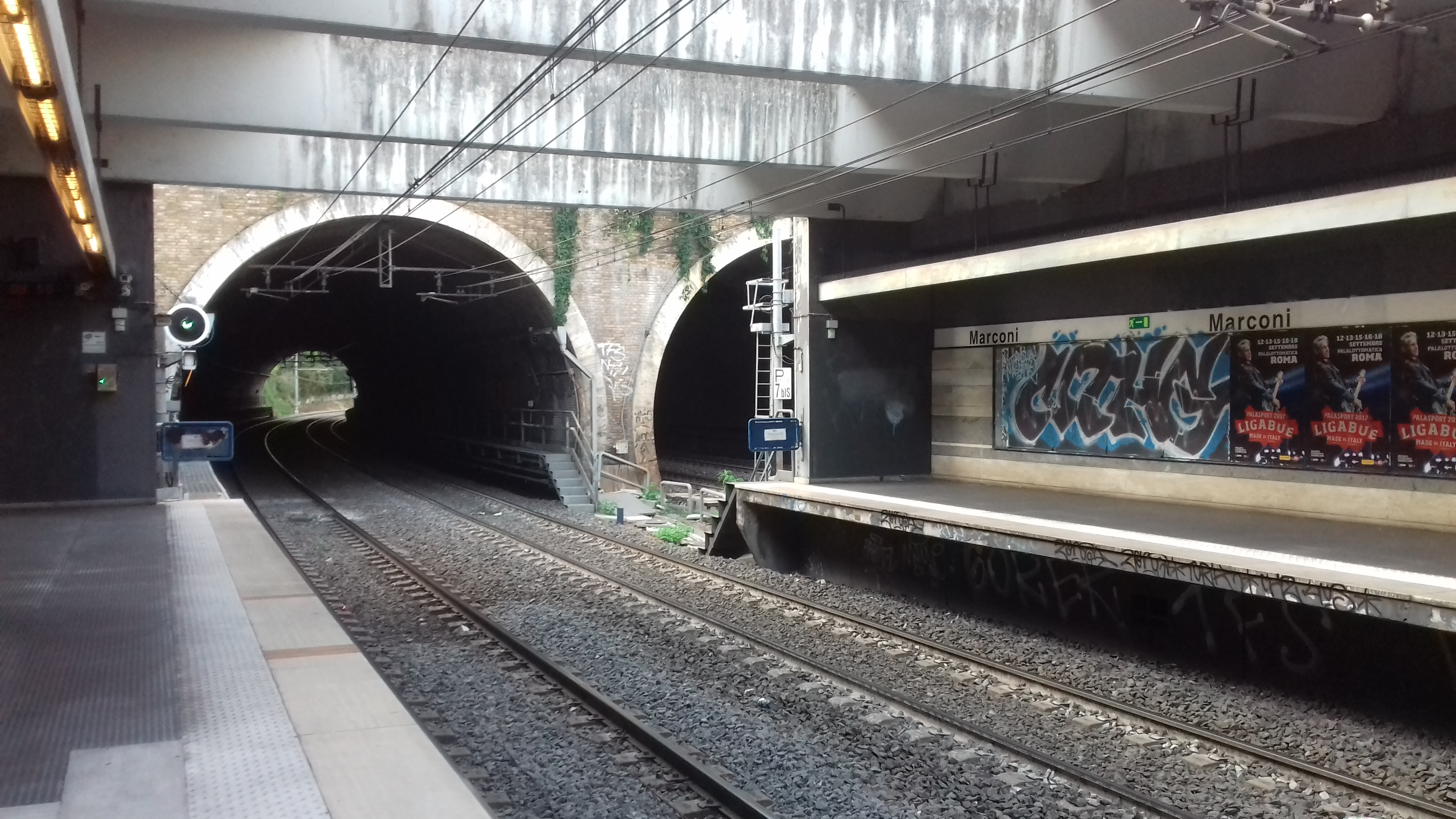 Platform of Metro B station Marconi in Rome